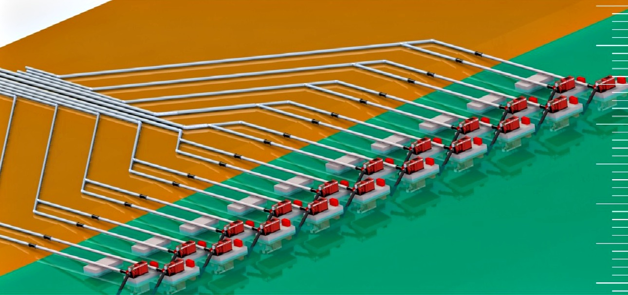 Van Hekeove pumpe